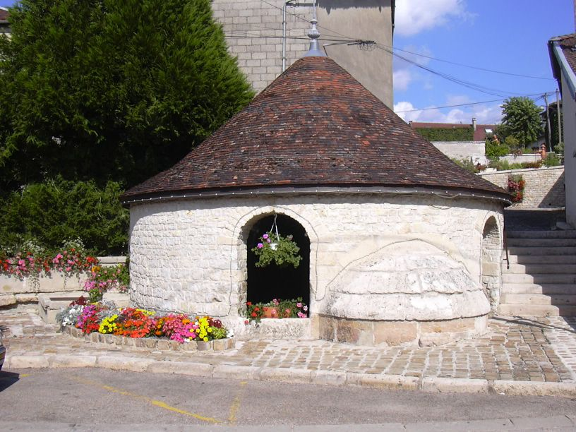 Wash-house in Colombé-le-Sec (Aube, Champagne-Ardenne, France).